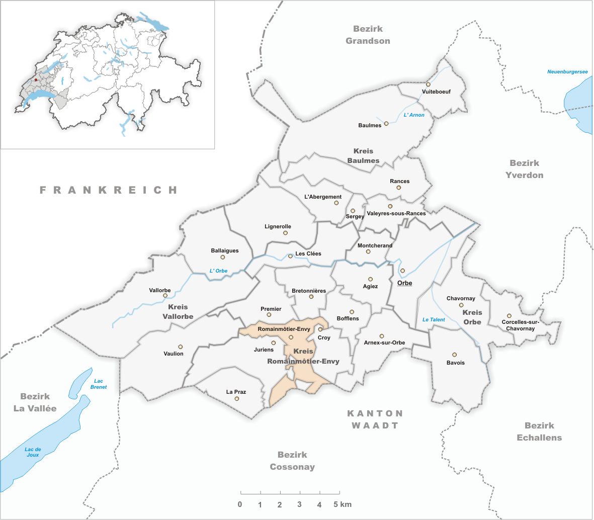 Municipality Romainmôtier-Envy